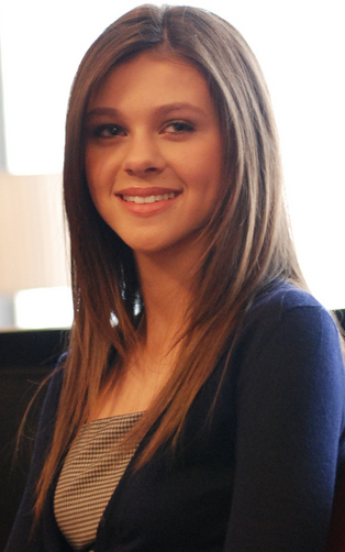 Nicola Peltz promoting The Last Airbender with Jackson Rathbone at the Flip Floppin Summer VIP Rooftop Party presented by Charter One, during the 52nd annual Target Fireworks in Detroit. The event took place on June 21, 2010 from 6 – 11 p.m. atop the Miller Parking Garage. Stars of the “The Last Airbender” to appear at the Parade Company's Flip Floppin Summer VIP Rooftop Party. . Retrieved on 2012-04-07.